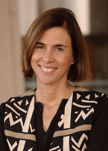 Dr. Jennifer Lippincott-Schwartz uses biology, physics, chemistry, mathematical modeling, engineering, and computer science to study how cells and their parts are organized and behave. Her innovative use of live cell imaging at the molecular level has enabled her laboratory to learn how cells function, and to compare healthy and diseased conditions. She was elected to the National Academy of Sciences in 2008.